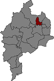 Location of Estamariu in Alt Urgell